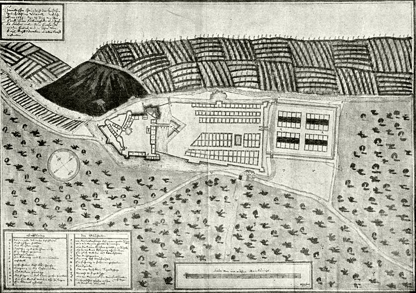 Levice in 1672 (1664). Caption according to the source:(upper left-fent balra) Geometrischer Grundrisz der Christlichen Gränitz Vöstung Löwentz, Welche anno 1664. den 14. Juny von Ihro Excell. Herrn Feldmarschalle vnd Grafen de Sóúches von dem Erbfeinde wieder Erobert vnd in Ihro röm. Keys. Maytt. Devotion wieder bracht worden.